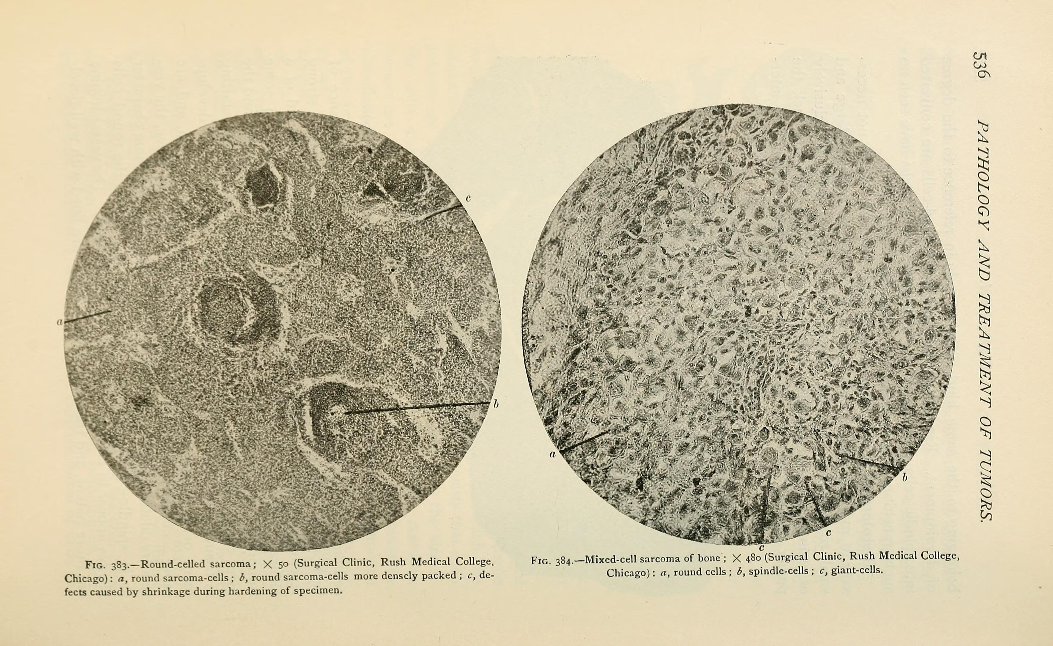 Title: The pathology and surgical treatment of tumors Year: 1895 (1890s) Authors: Senn, Nicholas, 1844-1908 Subjects: Neoplasms Neoplasms Cancer Cancer Publisher: Philadelphia : Saunders Text Appearing Before Image: SC.S^ Text Appearing After Image: SARCOMA. 537 oped endothelia. The round cells which compose the principal massof the new tissue are distinguished by their large nuclei containing anabundant supply of chromatin. A superficial examination reveals thepicture of an inflammatory process. A careful examination, however,shows that the cells are arranged in rows along the course of blood-vessels, which peculiar arrangement constitutes one of the most reliablediagnostic evidences of the character and variety of the tumor. Ifthese rows of cells are examined more carefully, it becomes evidentthat they are the product of connective-tissue proliferation. Veryfrequently short rows of four or five quadrangular cells are met with,densely packed, which are joined on the sides by triangular cells.The cells in such circumstances lose their round shape from mutualpressure. Round cells differ from spindle-cells in that the cell-seg-mentation by indirect division more speedily extends from the nucleusto the cell-proliferation. Mitotic fi